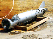 Presumed Kh-28 (NATO AS-9 'Kyle') found in Iraq in April 1991, emitting IRFNA fumes